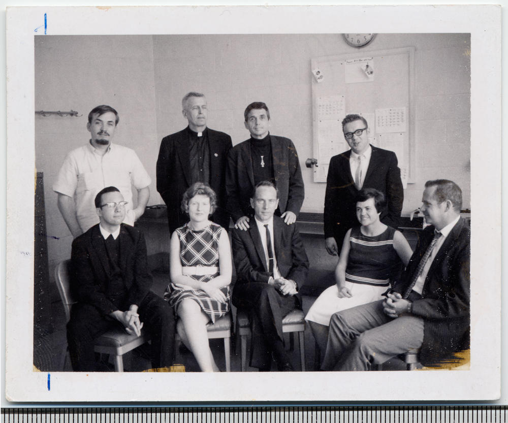 The nine anti-war activists in the Wilkens police station, Catonsville, Maryland, on May 17, 1968, photographed by Herald Argus newspaper reporter Jean Walsh soon after their arrest.